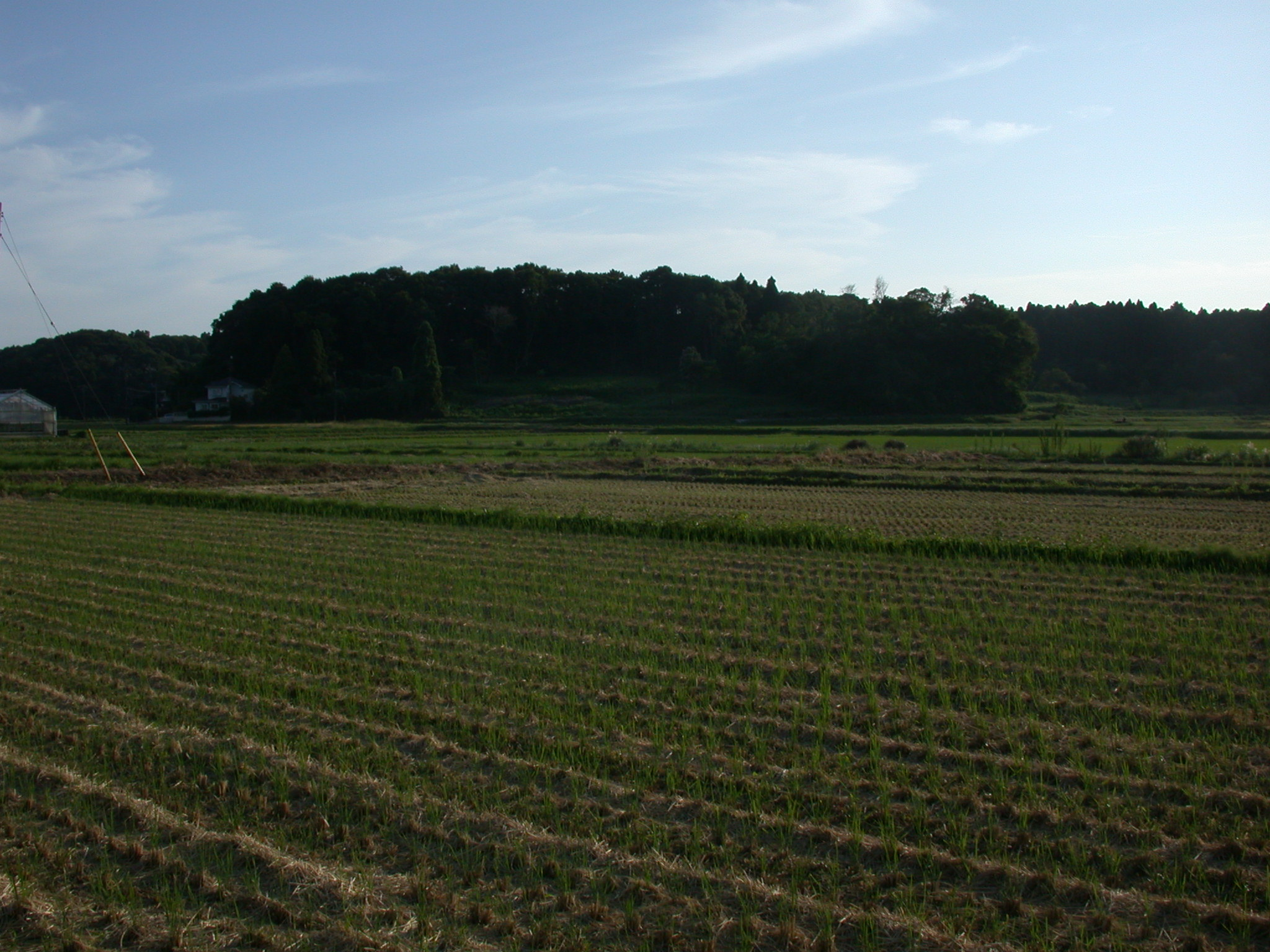 Motosakura Castle